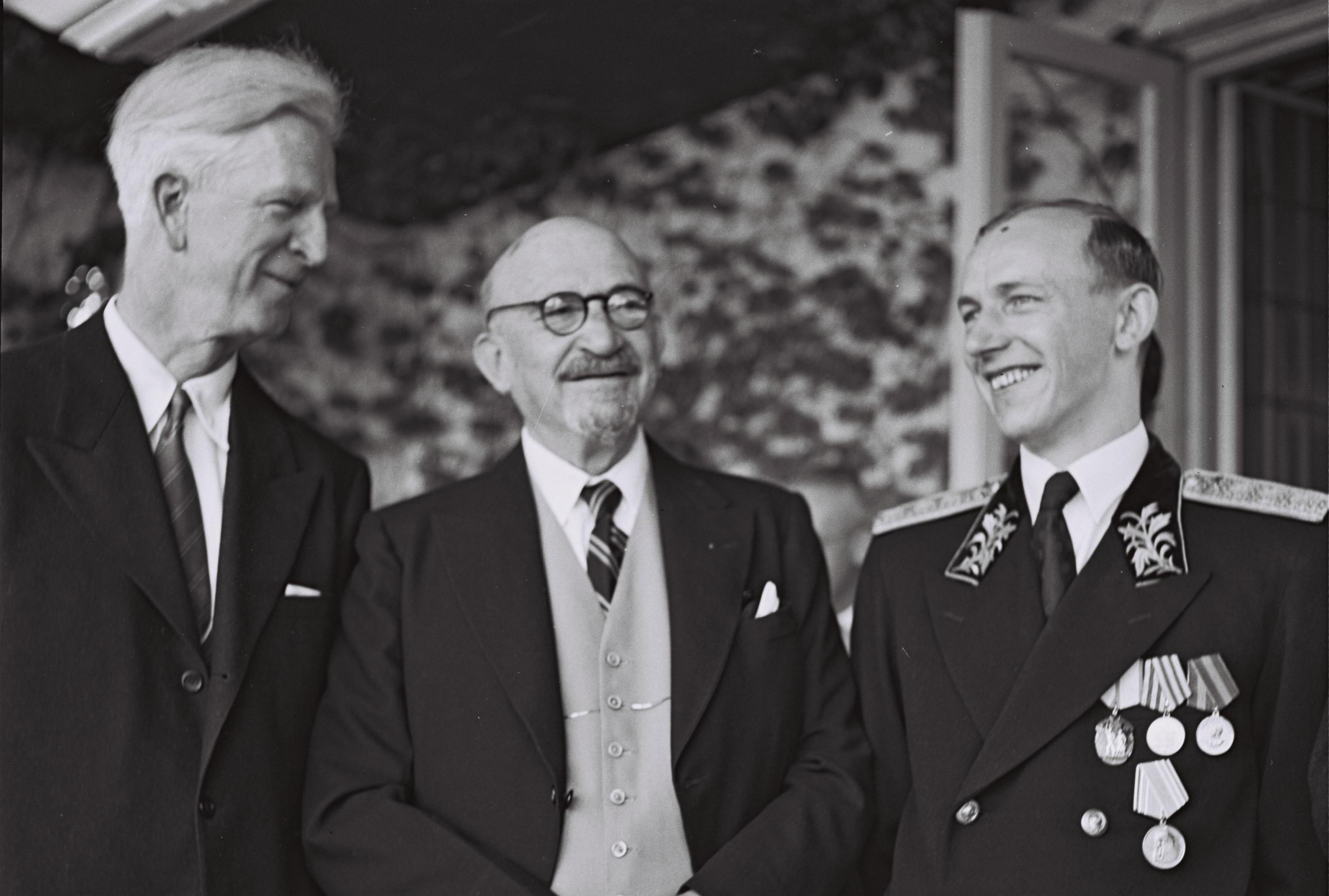 Independence day reception for the diplomatic corps at the president's home, in Rehovot. R-L, u.s. amb. James Mcdonald, pres. Haim Weizmann & u.s.s.r amb. Yershov.